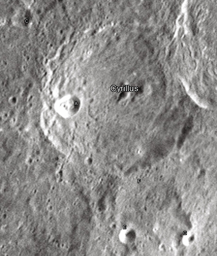 Cyrillus lunar crater as seen from Earth with satellite craters labeled